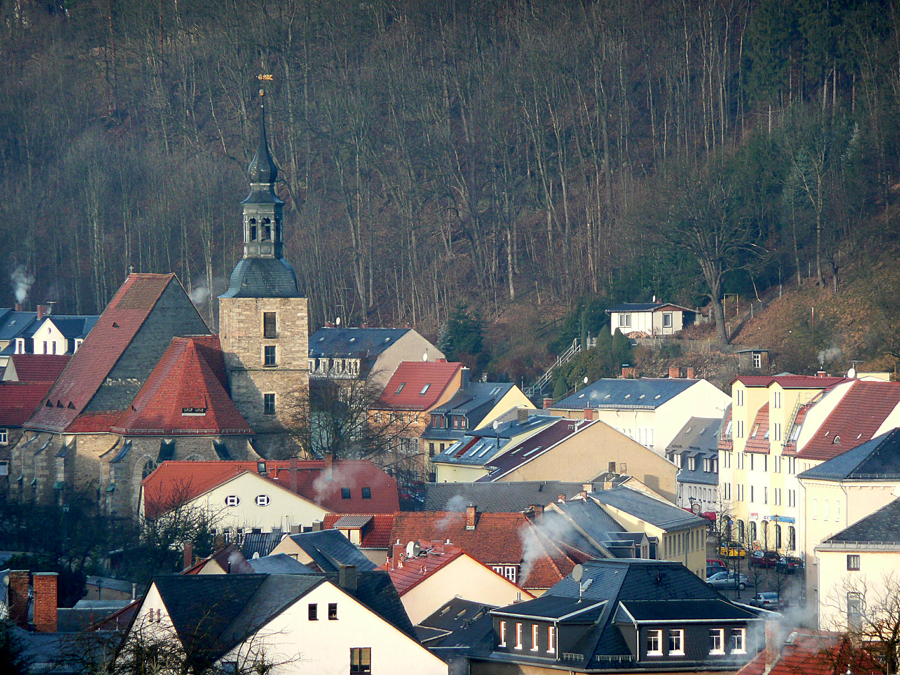 This image shows Glashütte with the St. Wolfgangs-church.